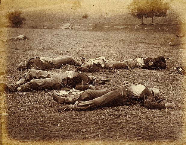 Battle of Gettysburg: albumen print, Height: 6.9 in (17.6 cm); Width: 9 in (22.8 cm) dimensions QS:P2048,6.9375U218593;P2049,9U218593